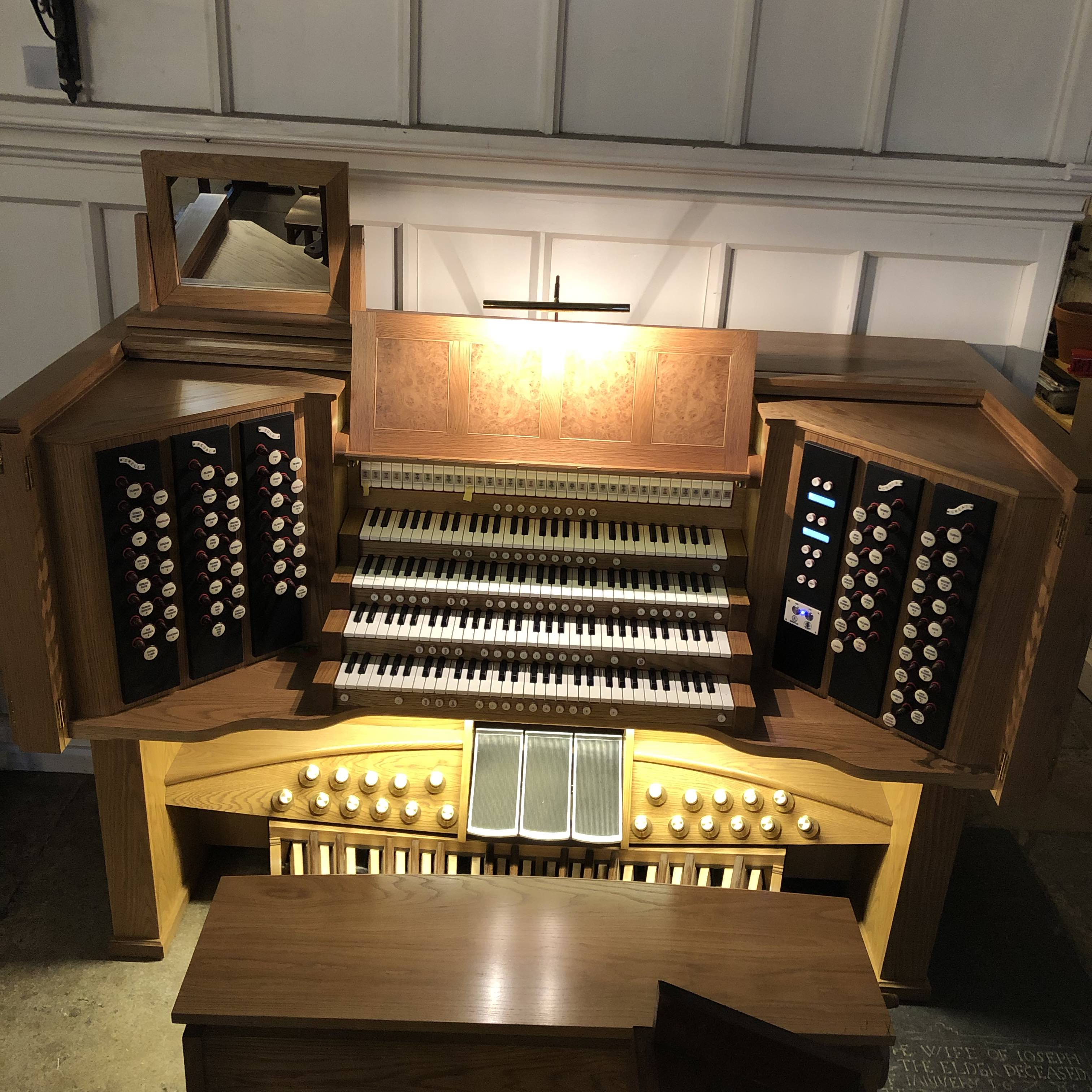 Hauptwerk - Replica of Hereford Cathedral bulit by Romsey Organ Works